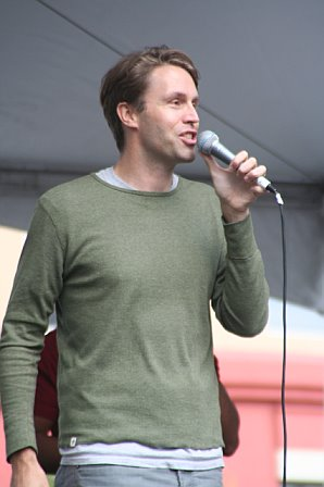 Photo taken by Katy Sharon 2006, released to Public Domain